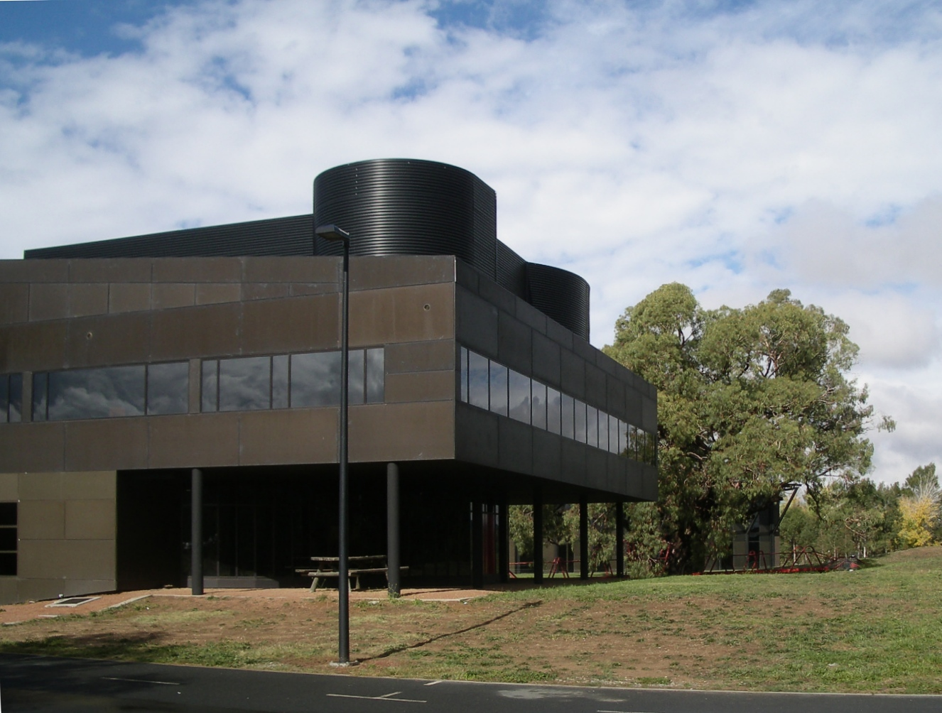 Institute of Aboriginal and Torres Strait Islander Studies in Canberra. Designed by Ashton Raggatt McDougall.